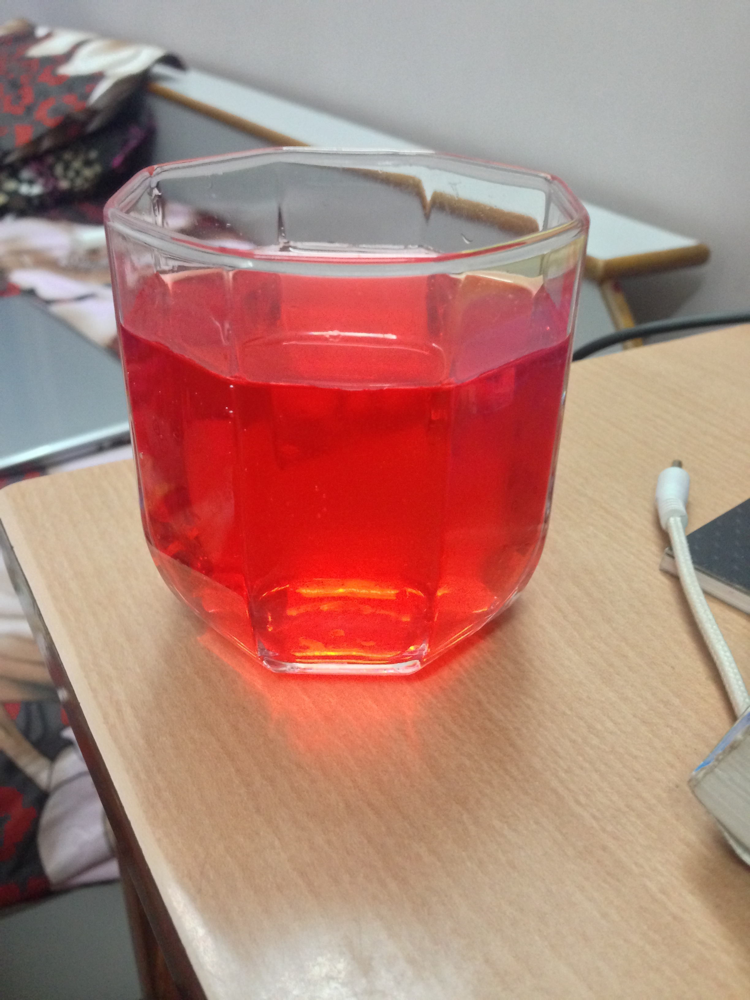 It's a Cold Drink made by mixing water with Rooh Afza